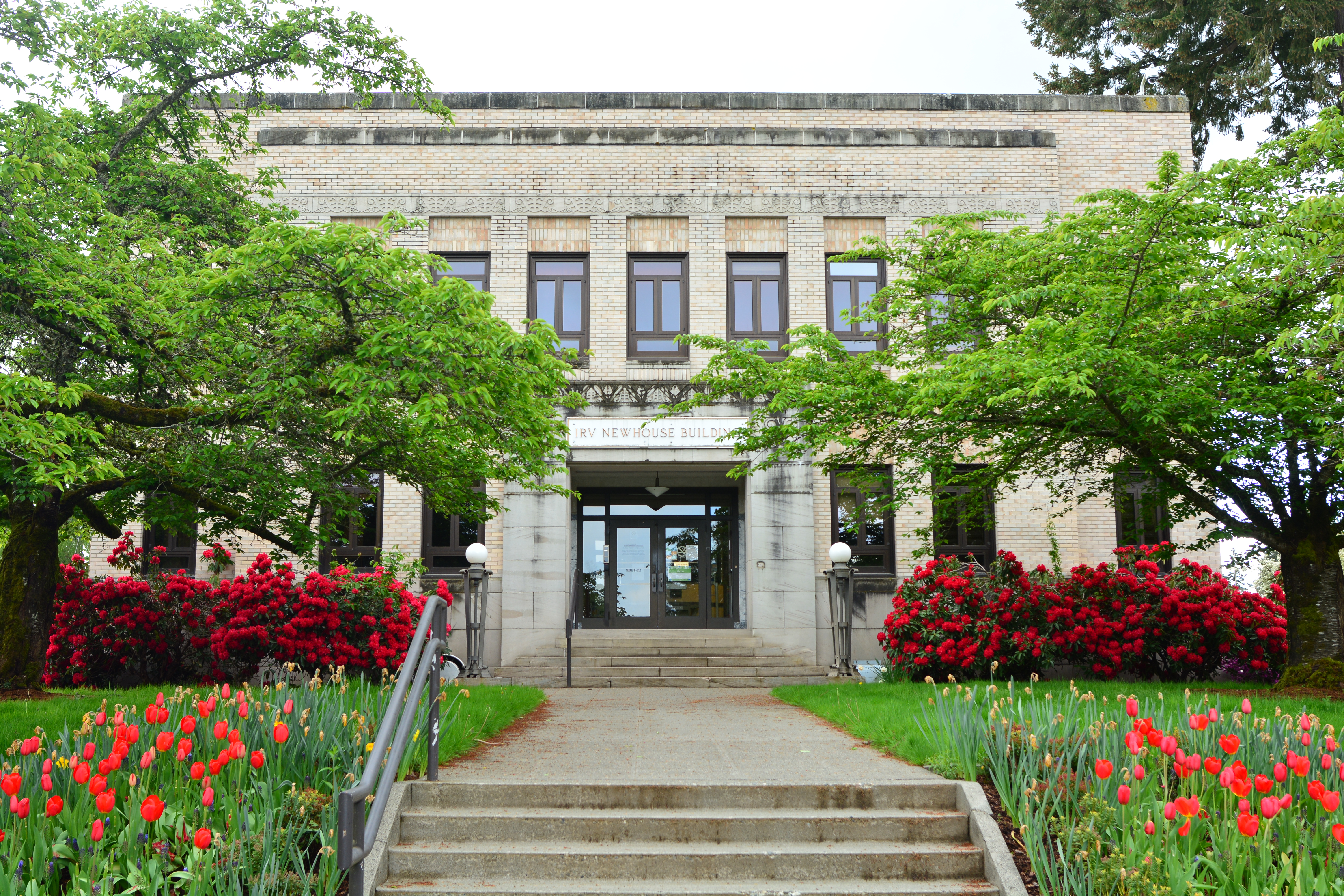 The Irv Newhouse Building, a.k.a. Irving R. Newhouse Building, Washington State Capitol complex, Olympia, Washington, houses Washington State Senate offices.